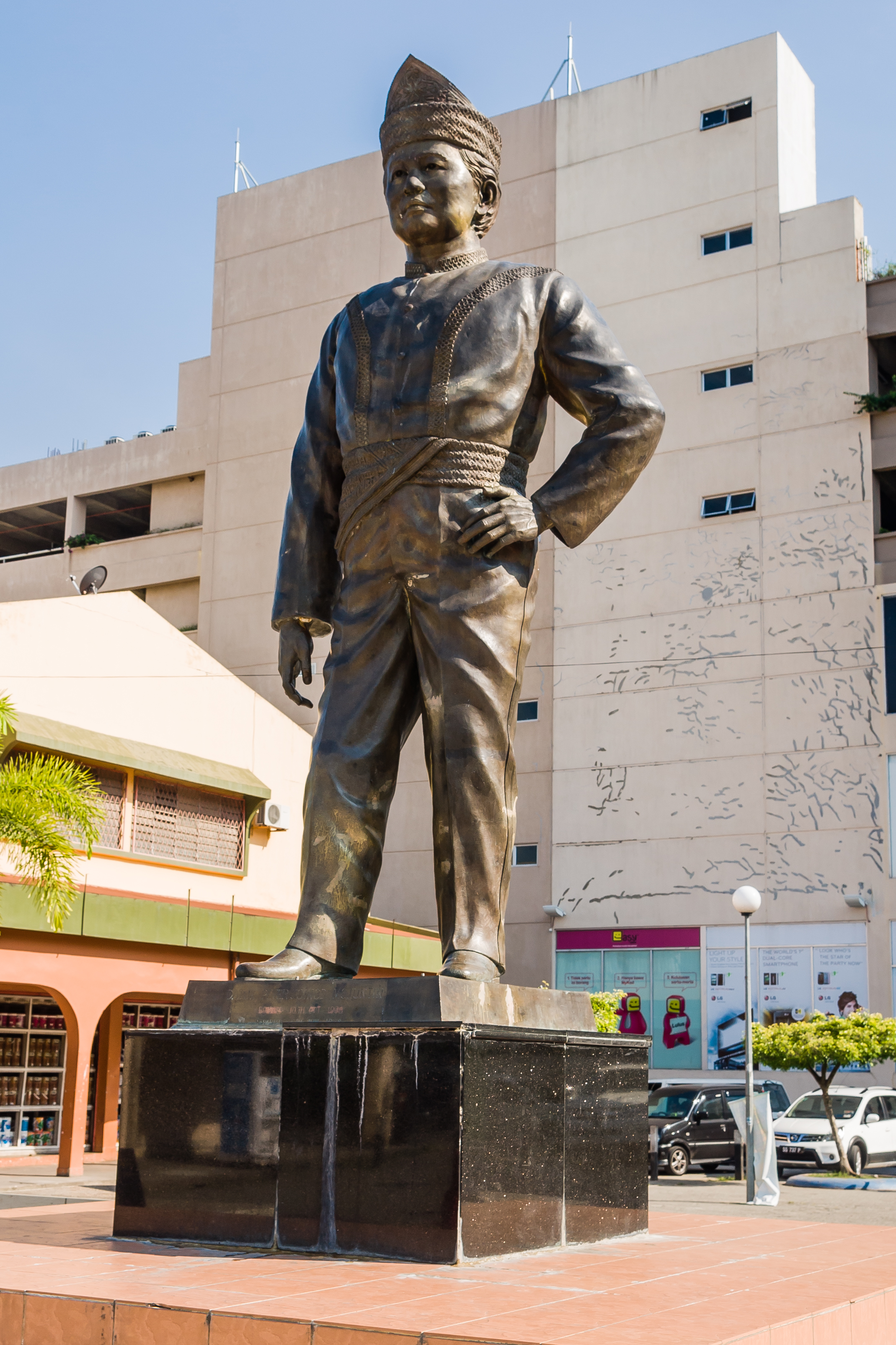 Donggongon, Sabah: Statue of Peter Mojuntin